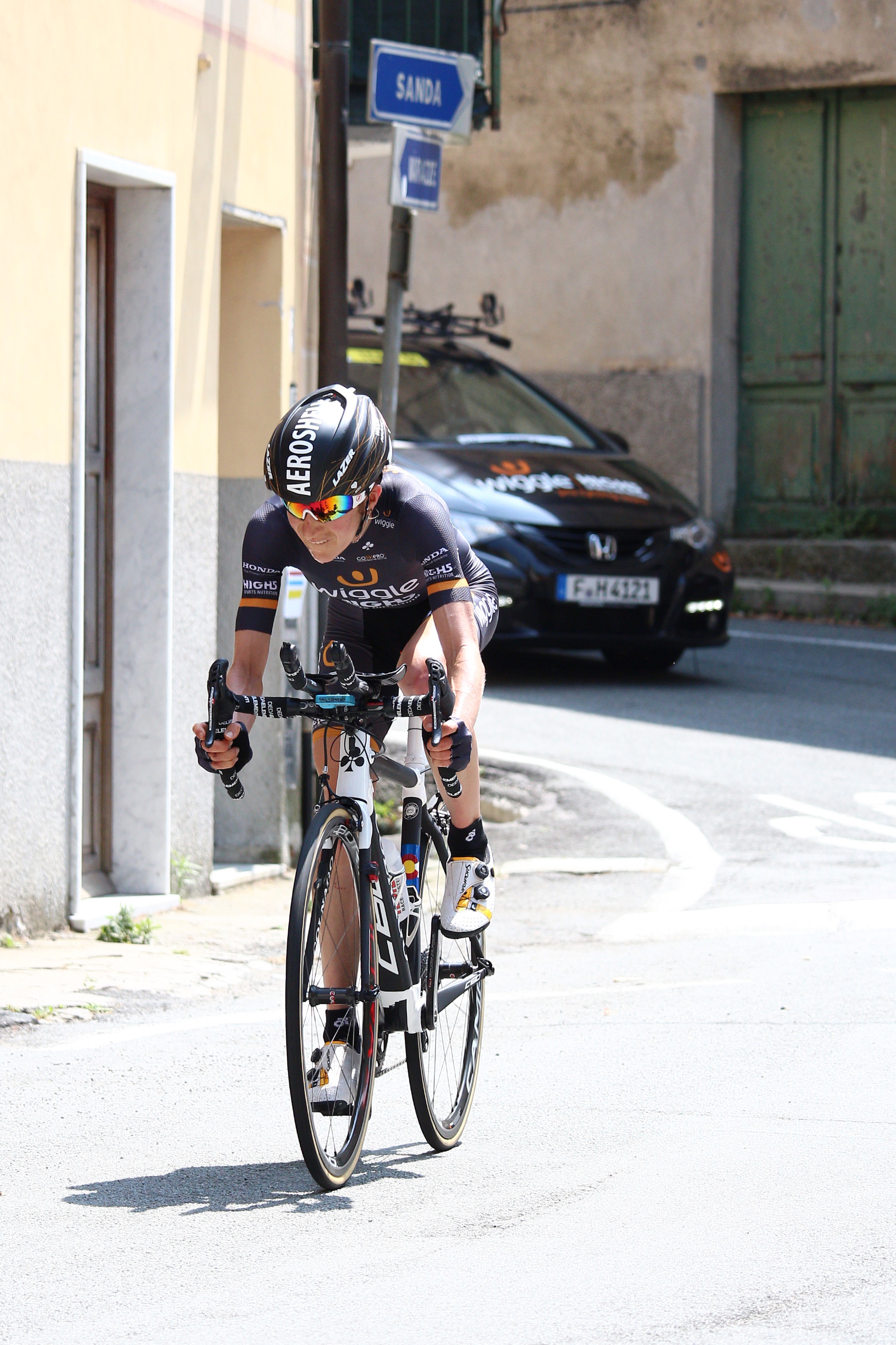 Mara Abbott during the 7th stage of Giro Rosa 2016 in Stella San Martino